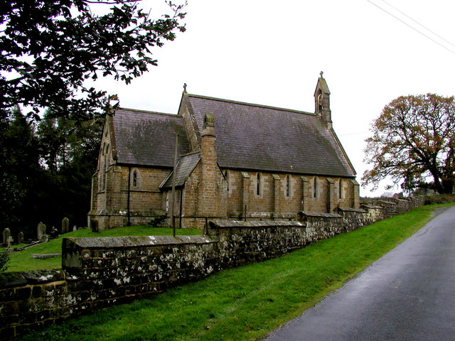 Saint Peter's Church Lovely little church far from any large concentrations of population.